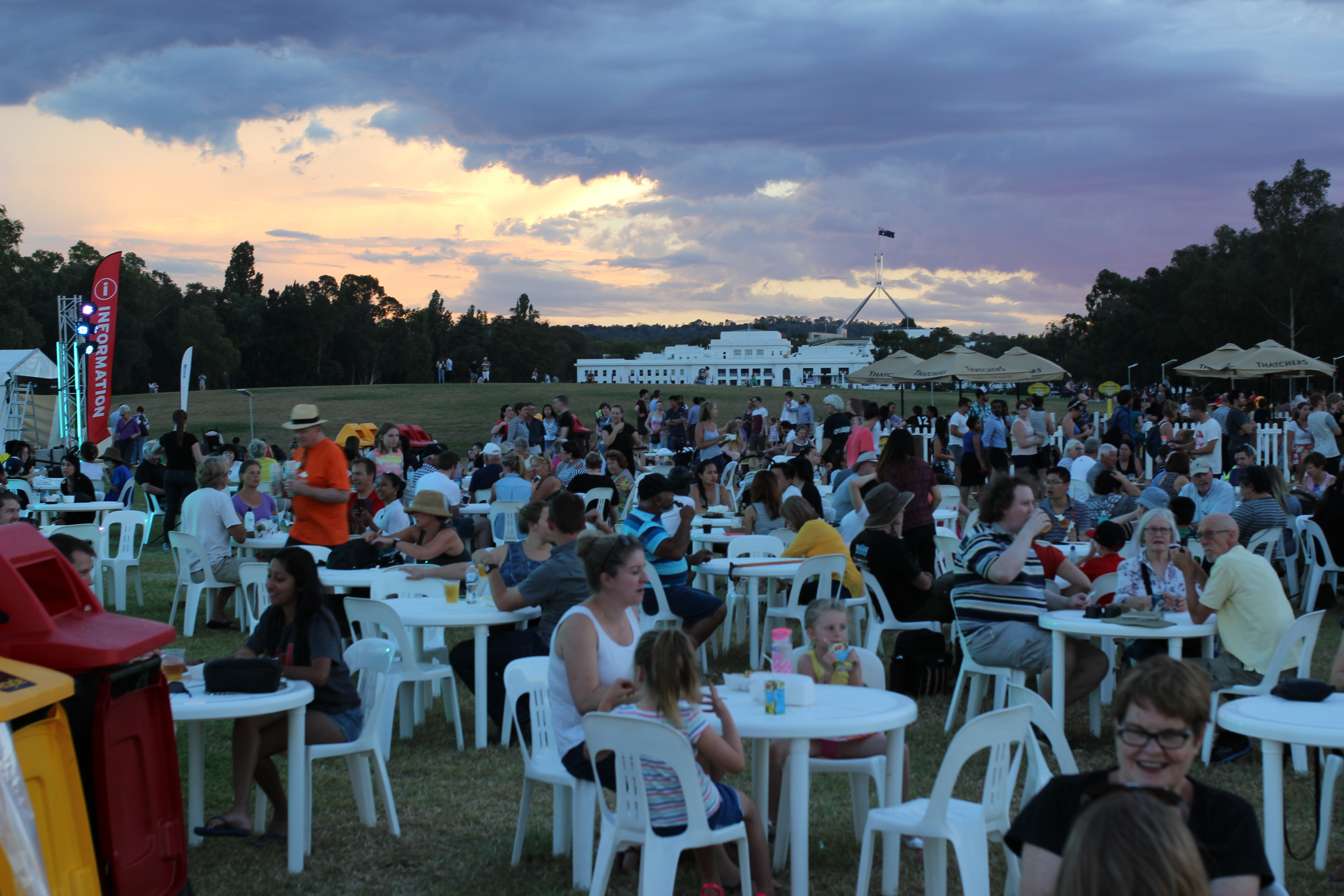 Enlighten Night Noodle Market, Canberra 2016